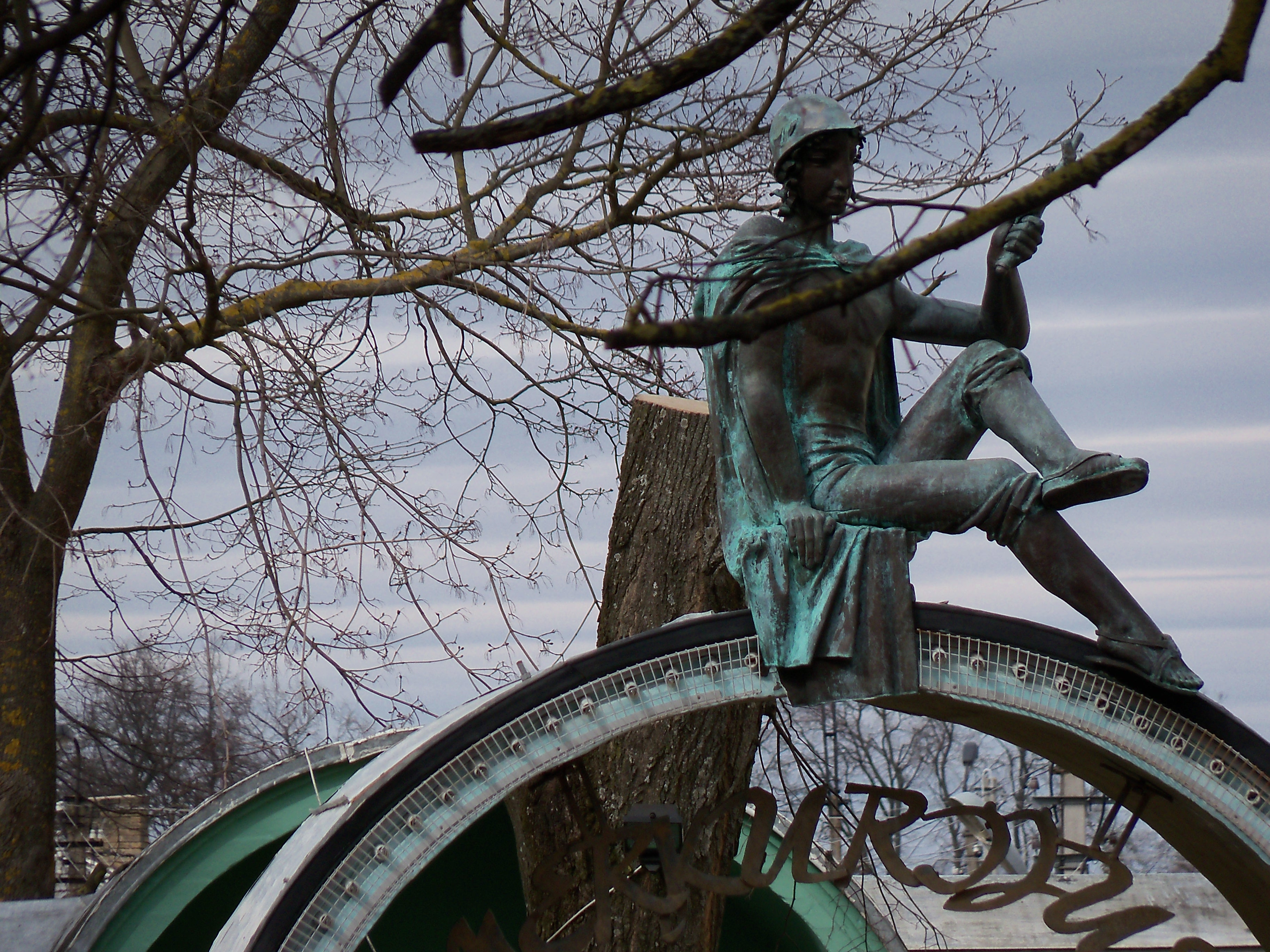 Sculpture in Laurynas Stuoka-Gucevičius square, Kupiškis, Lithuania